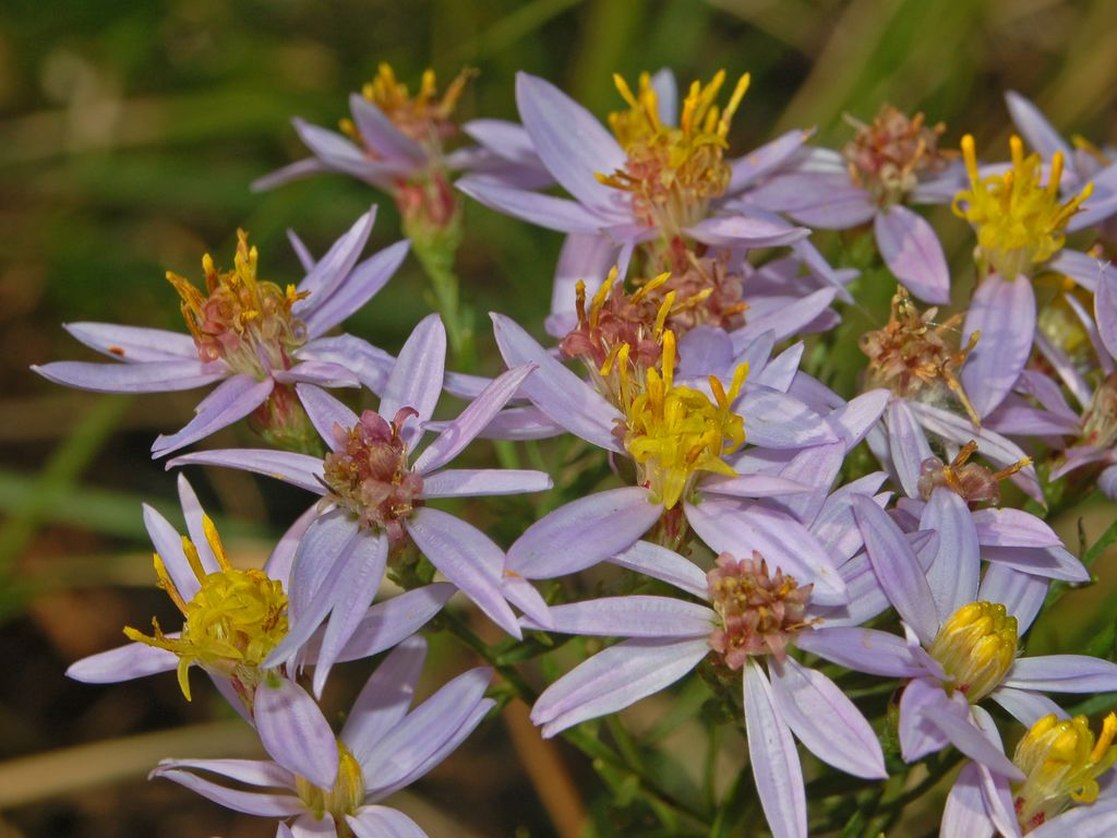 Aster sedifolius, Genova, Italy